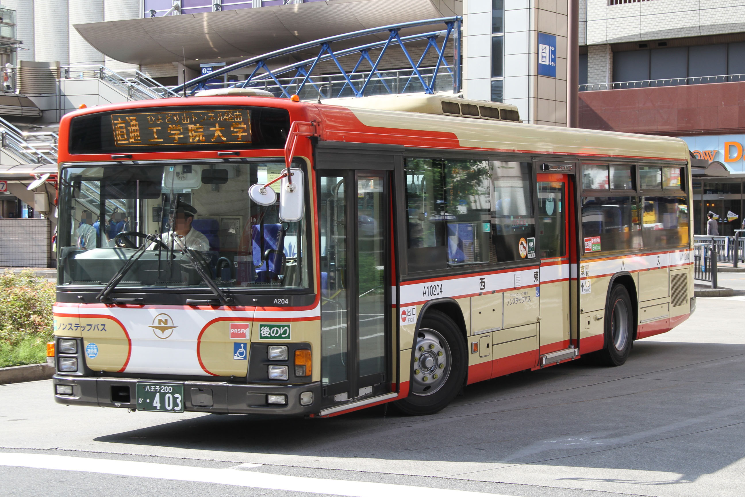 Nishi Tokyo Bus direct service car to university 西東京バスの大学直通路線車両